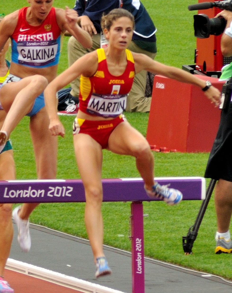 London 2012 Womens 3000m Steeplechase, Diana Martín